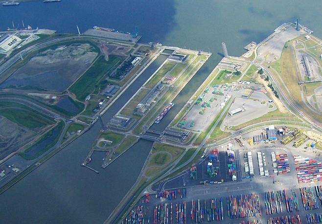 Port of Antwerp: Berendrecht Lock (right) en Zandvliet Lock (left)